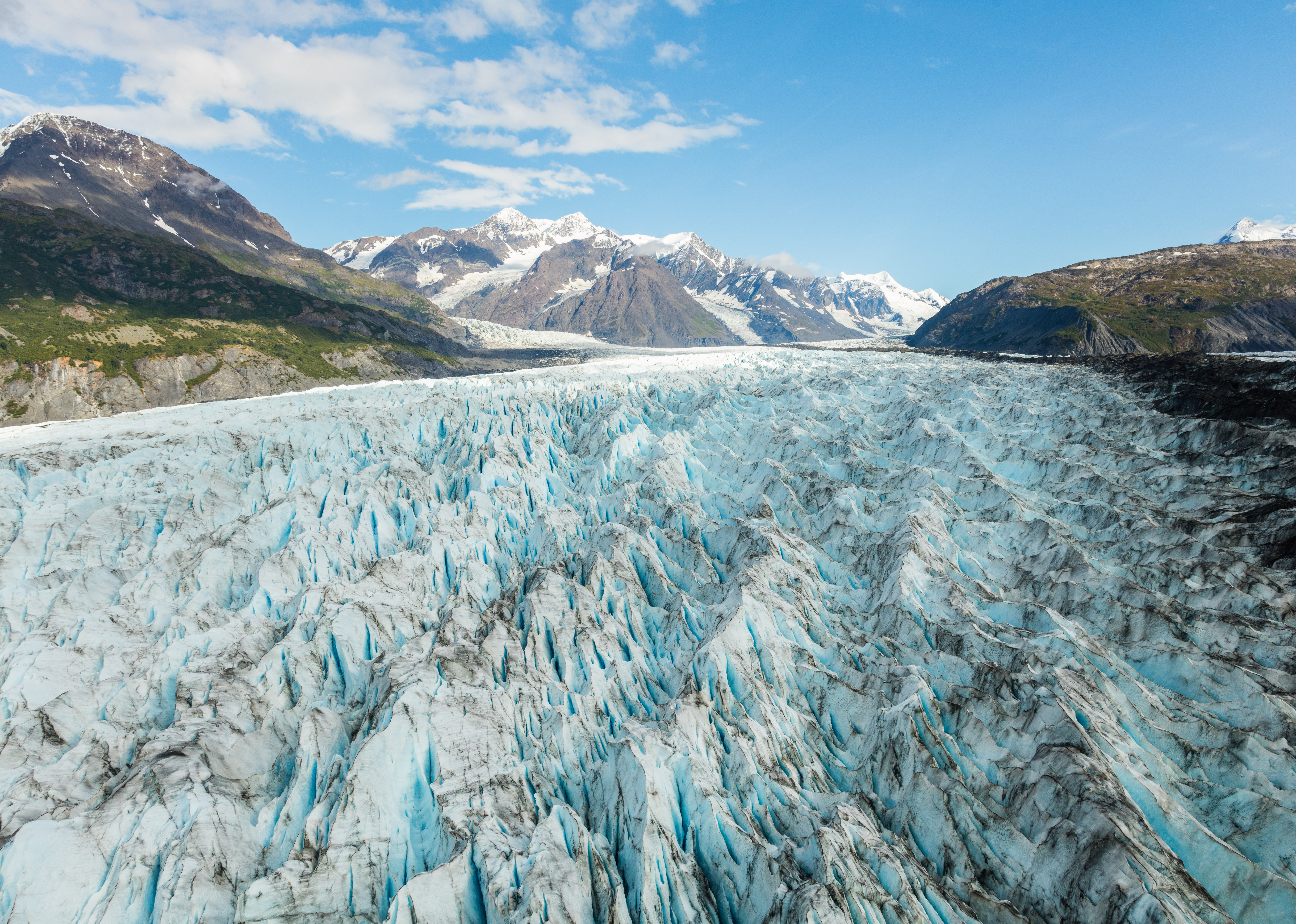 View of a glacier from the top in Chugach State Park, Alaska, United States.